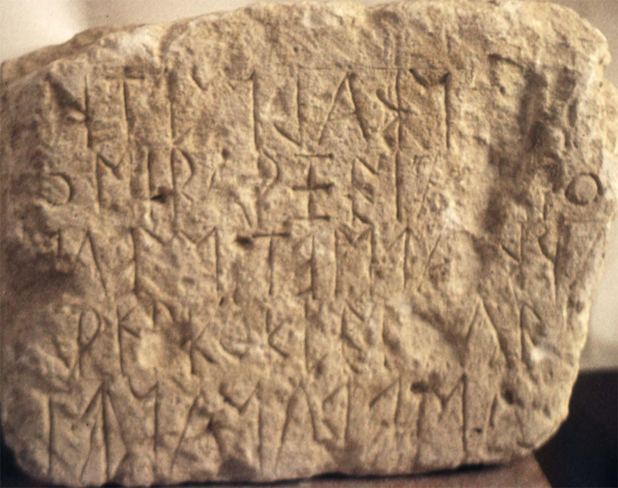 This is a photograph of the earliest Eteocretan inscription from Praisos in Crete. It is in archaic Cretan alphabet, written boustrophedon, dating from late 7th or early 6th century BC.